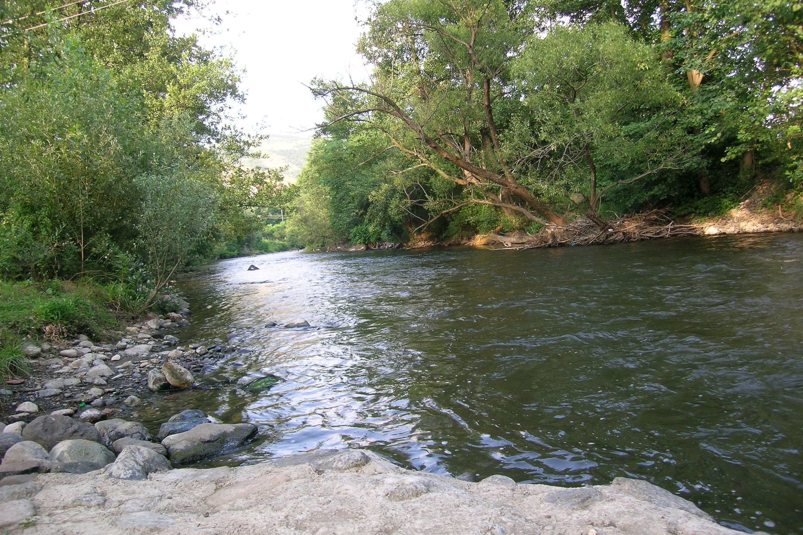 Studenica river near Ušće (Kraljevo), Serbia (photo: Mihailo Grbic)